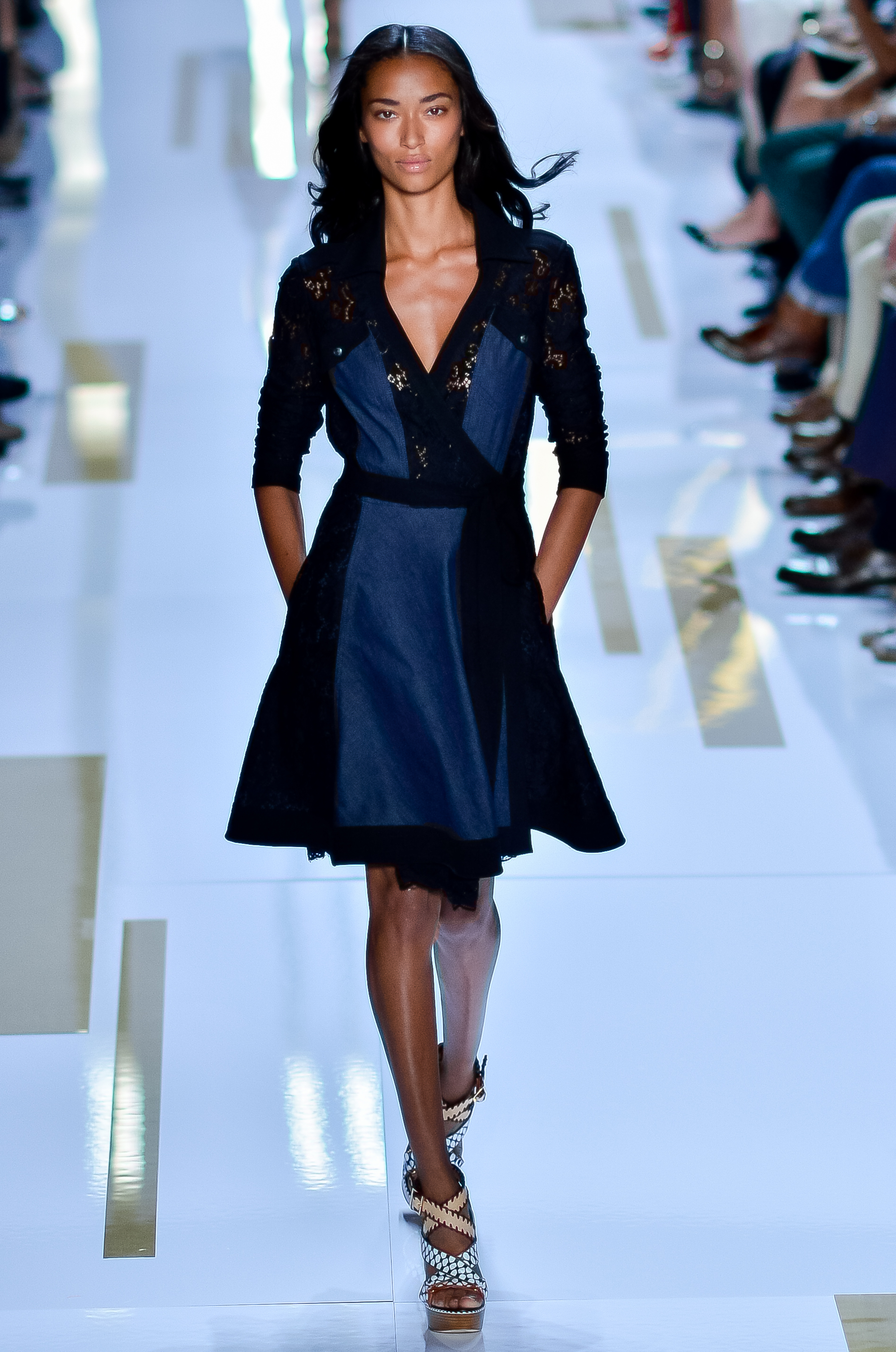 Model Anais Mali at the Diane Von Furstenberg Spring/Summer 2014 fashion show on September 8, 2013 at New York Fashion Week. Photo by Christopher Macsurak